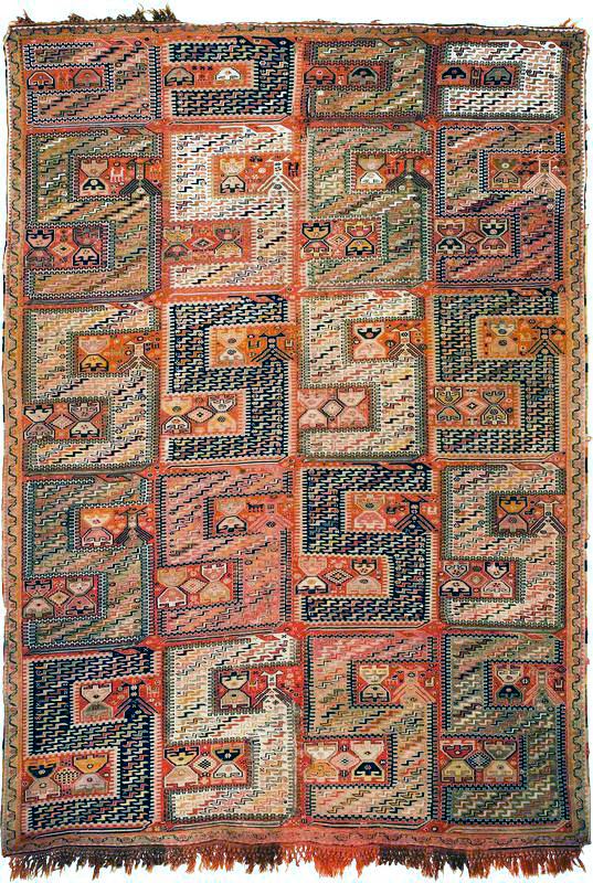 Armenian rug , No. 11178